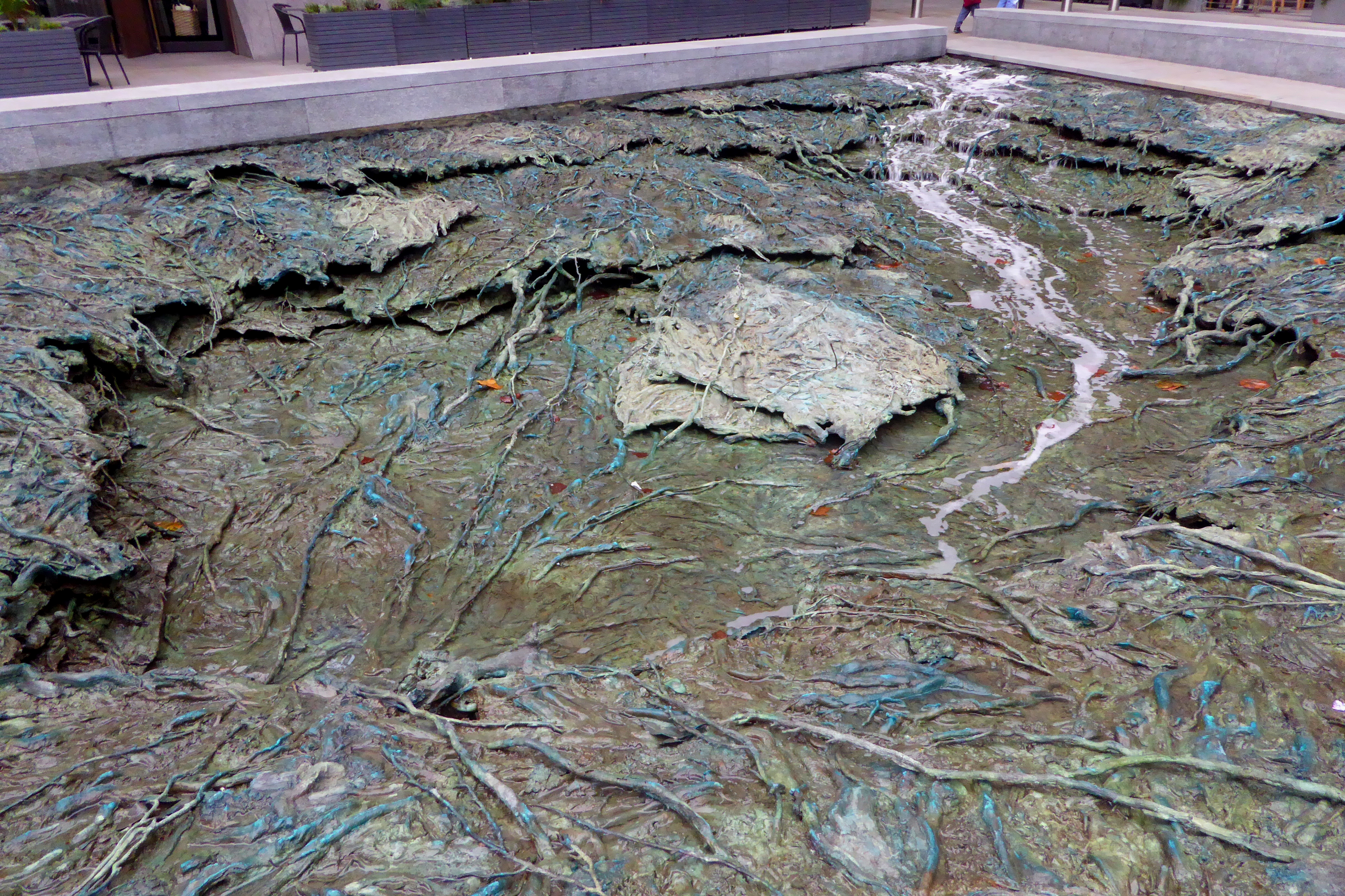 "Forgotten Streams", a sculpture by Cristina Iglesias opened outside Bloomberg headquarters in 2017. The artwork marks the path of the subterranean Walbrook River.